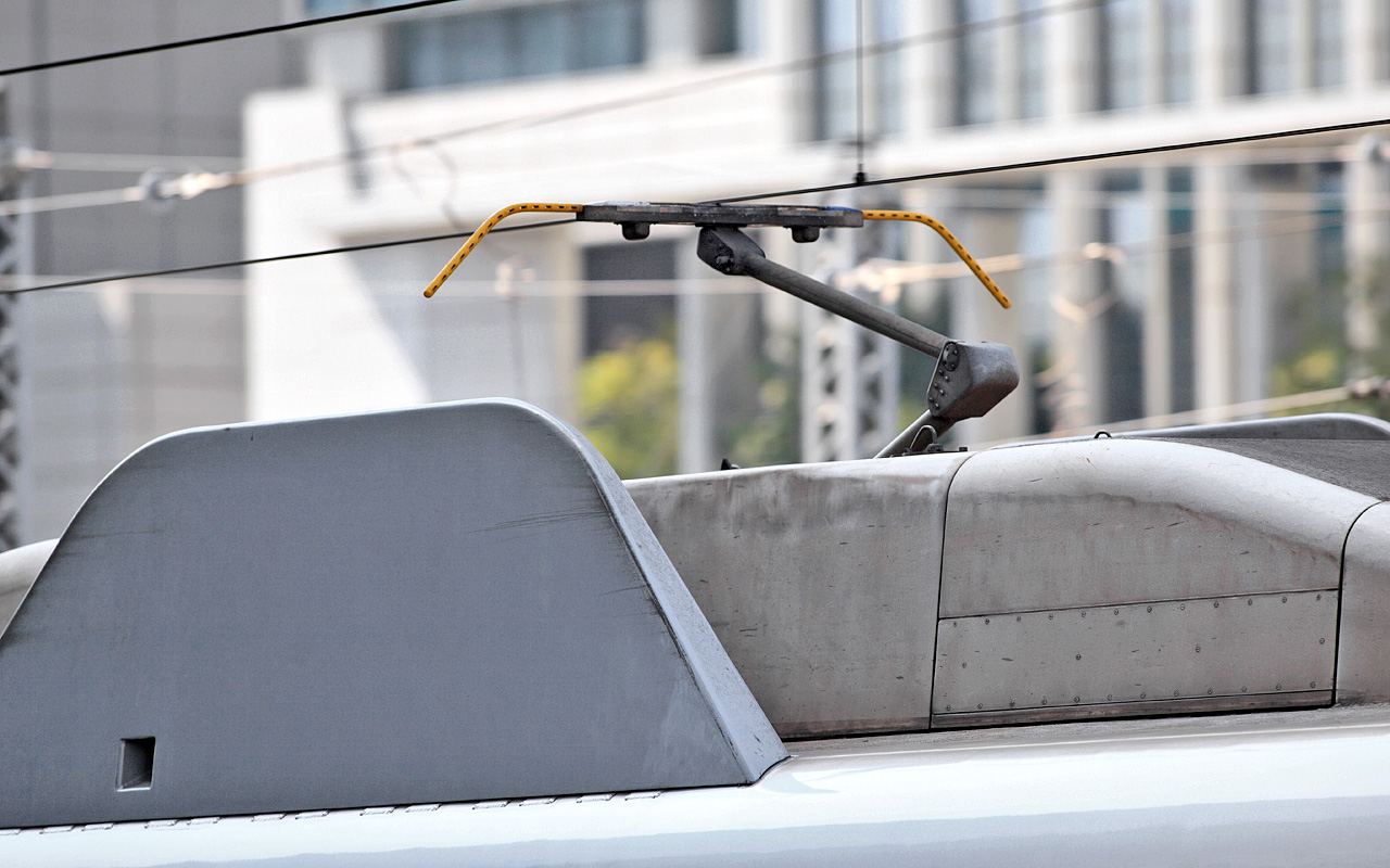 Single-arm pantograph on a JR Central 700 series Shinkansen train